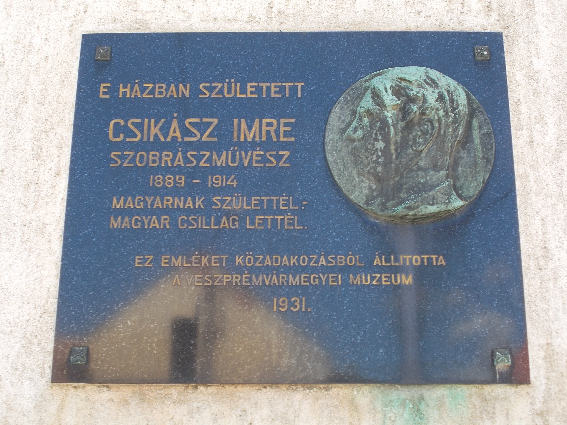 Imre Csikász relief-plaque. - 5 Eszterházy Antal St., Veszprém, Veszprém County, Hungary.